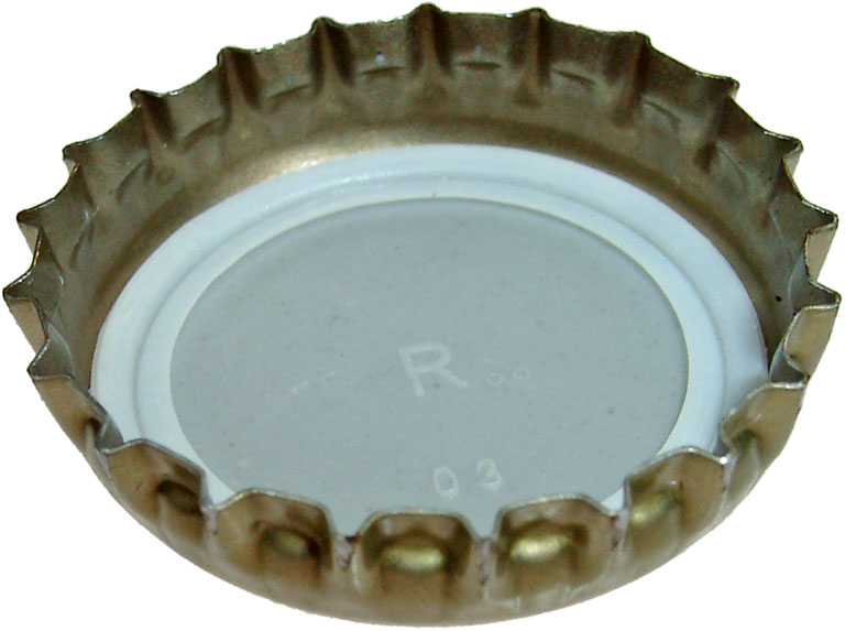 Bottlecap